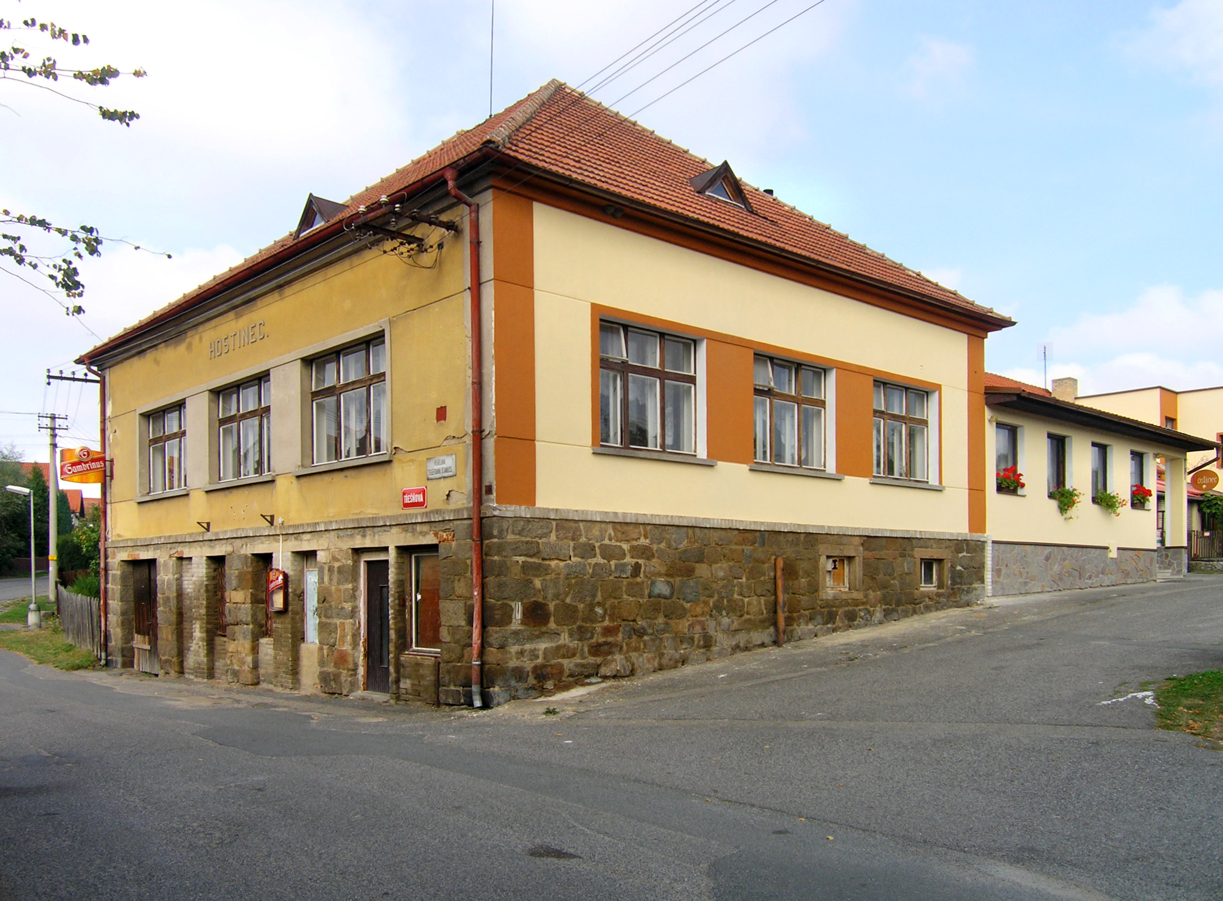 Restaurant in Těptín, part of Kamenice village, Czech Republic